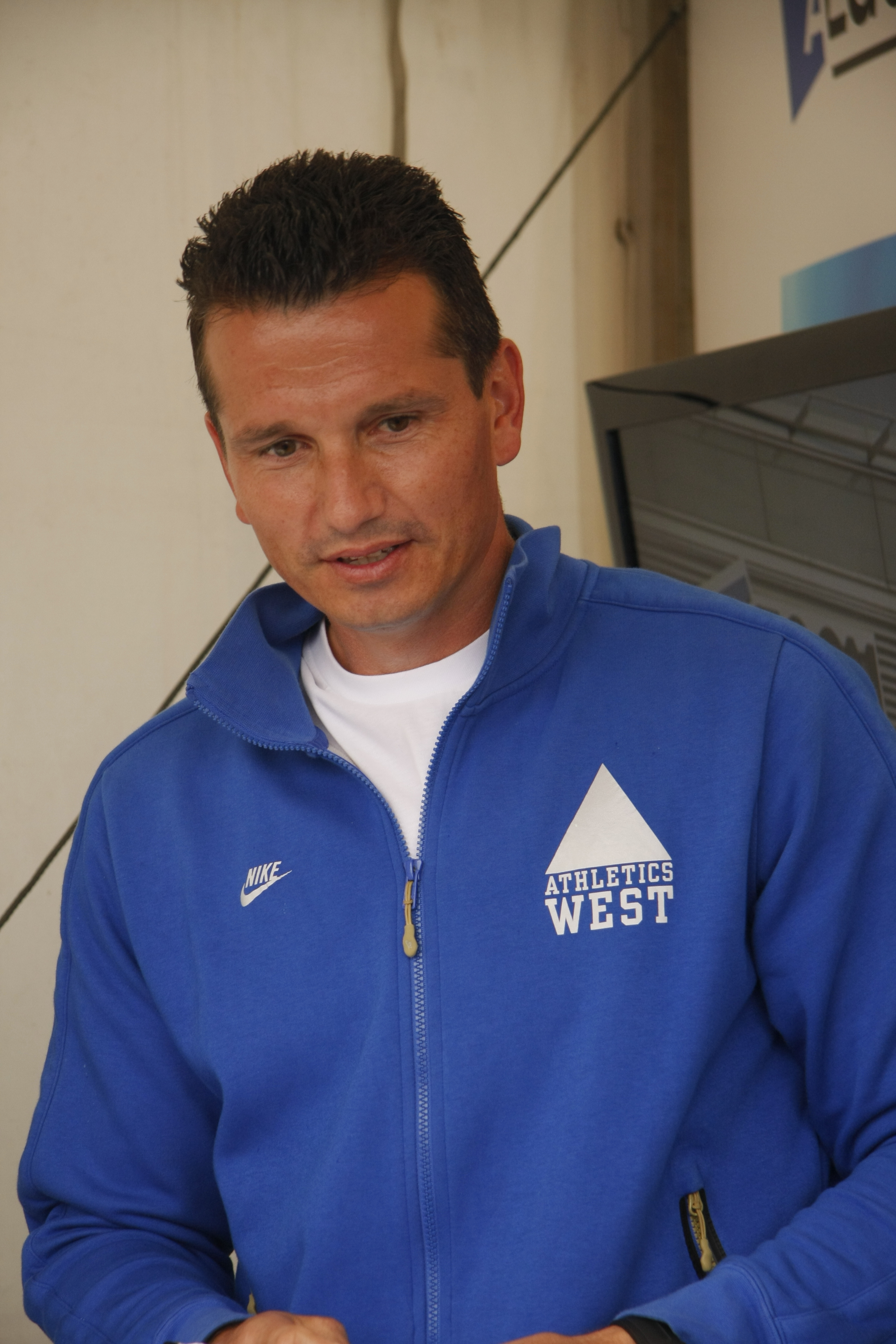 Richard Krajicek Richard Krajicek, Aegon International Tennis Eastbourne 2011